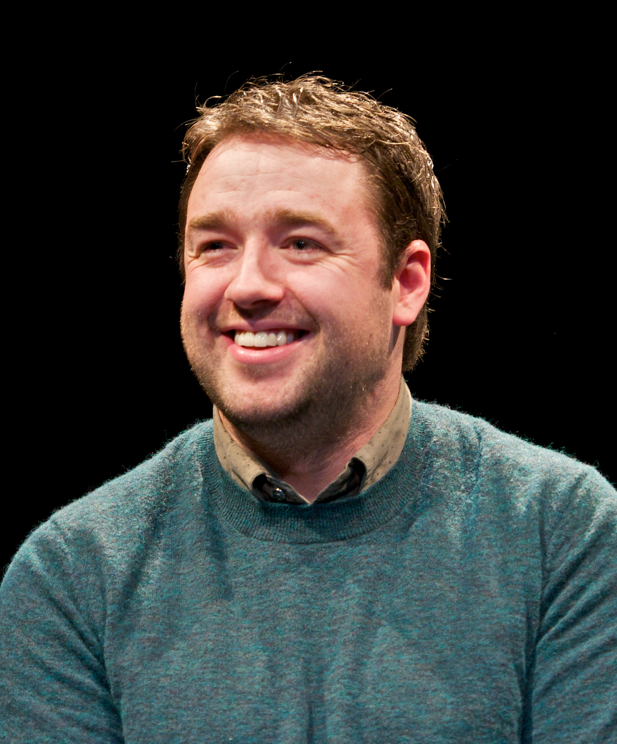 Jason Manford came home to the University of Salford yesterday (Wednesday 30 January) when he passed on advice and tips from his successful comedy and writing career to more than 50 performance students. The Salford-born comic gave a masterclass to an audience of students and staff at the University’s Adelphi Studio, where he graduated with a BA in Media and Performance in 2004. Since then he has become one of the nation’s best known stand-up comedians and TV personalities, with credits including Live at the Apollo, 8 Out of 10 Cats, Comedy World Cup and a stint starring in Sweeney Todd in London last year. He will be touring the UK with his new stand-up show First World Problems from May. During the lively question and answer session with Comedy Practices BA and other Performance students, Jason talked about his experiences from a 15-year career in comedy, including the importance of disappointment and knock-backs in driving a comedian to improve; the balancing act between over-confidence and insecurity; how social media is now an important part of his writing process; and how to deal with hecklers. Full story at bit.ly/11jWxyJ.